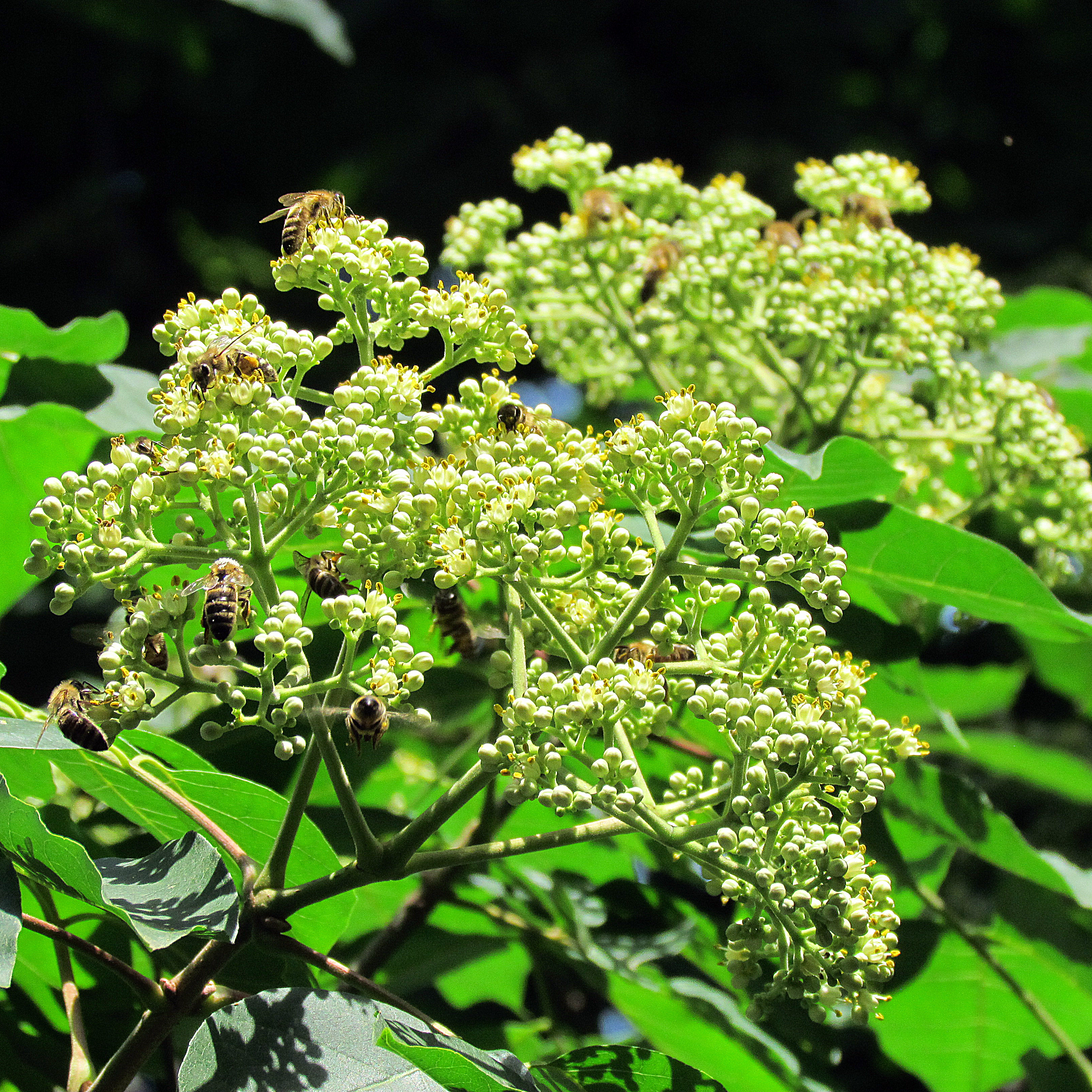 Tetradium daniellii inflorescence.